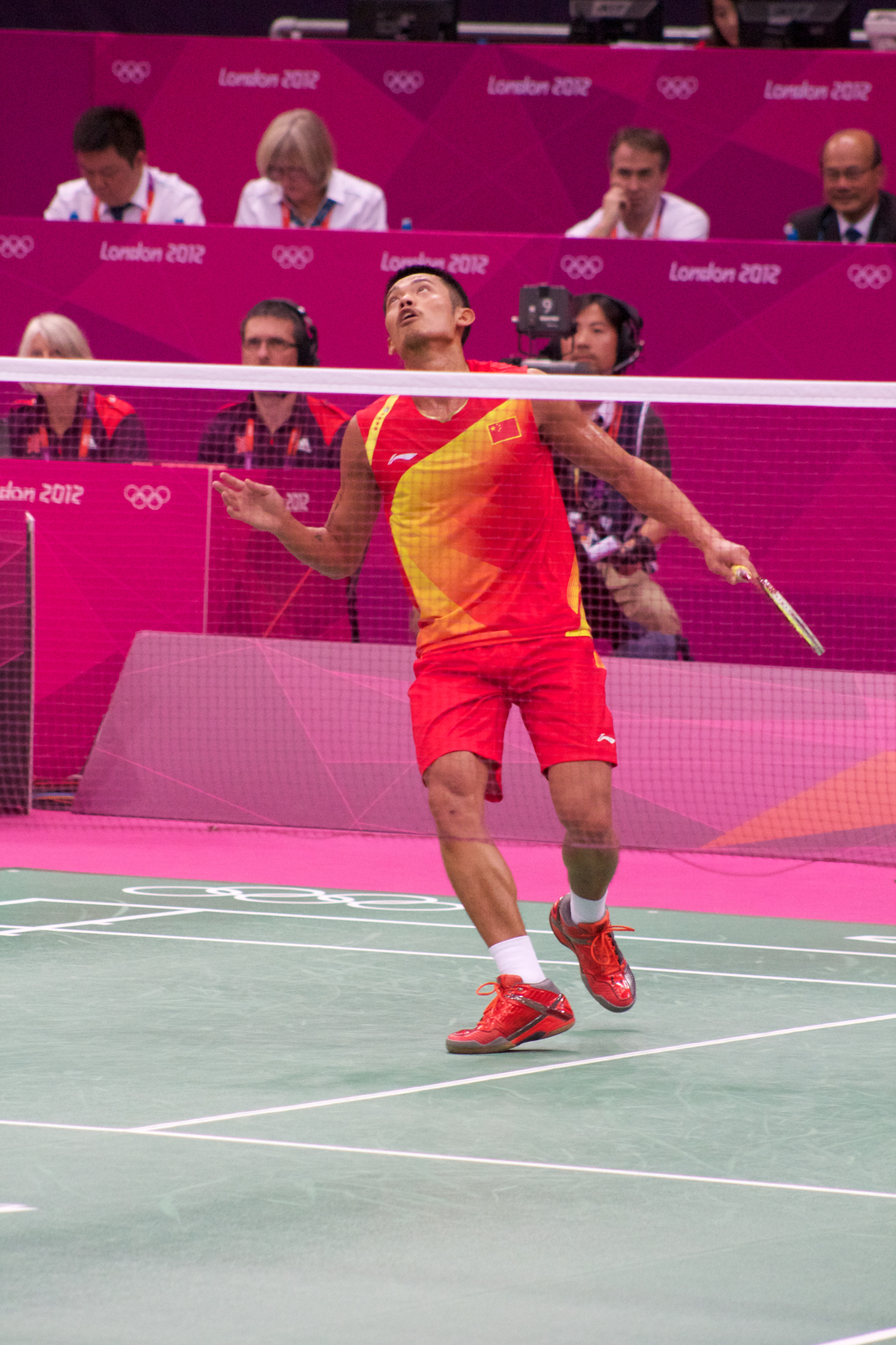 Badminton at the 2012 Summer Olympics